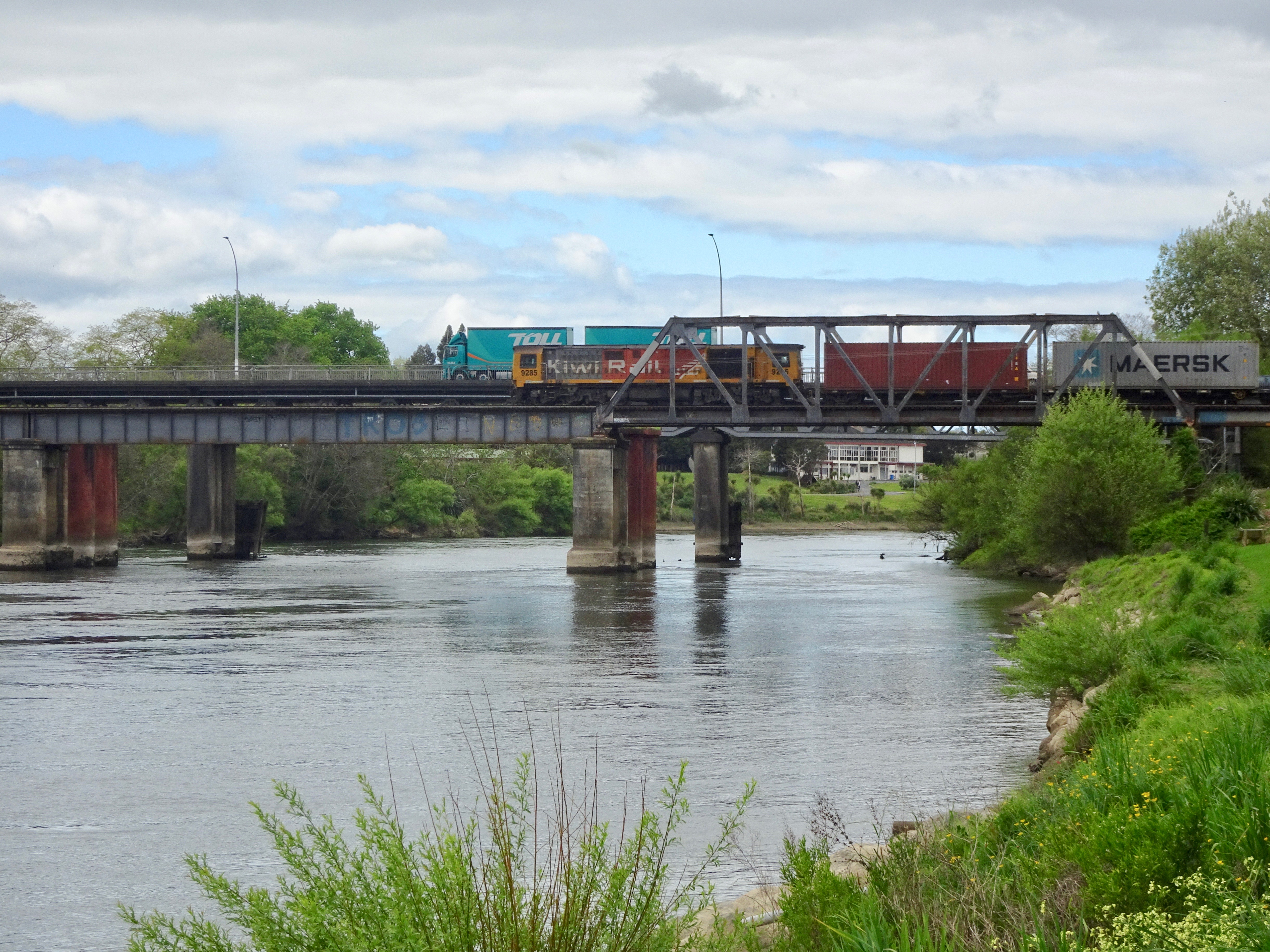 DL 9285 heading a northbound freight over Ngāruawāhia railway bridge with a Toll truck on the road bridge over the Waikato River